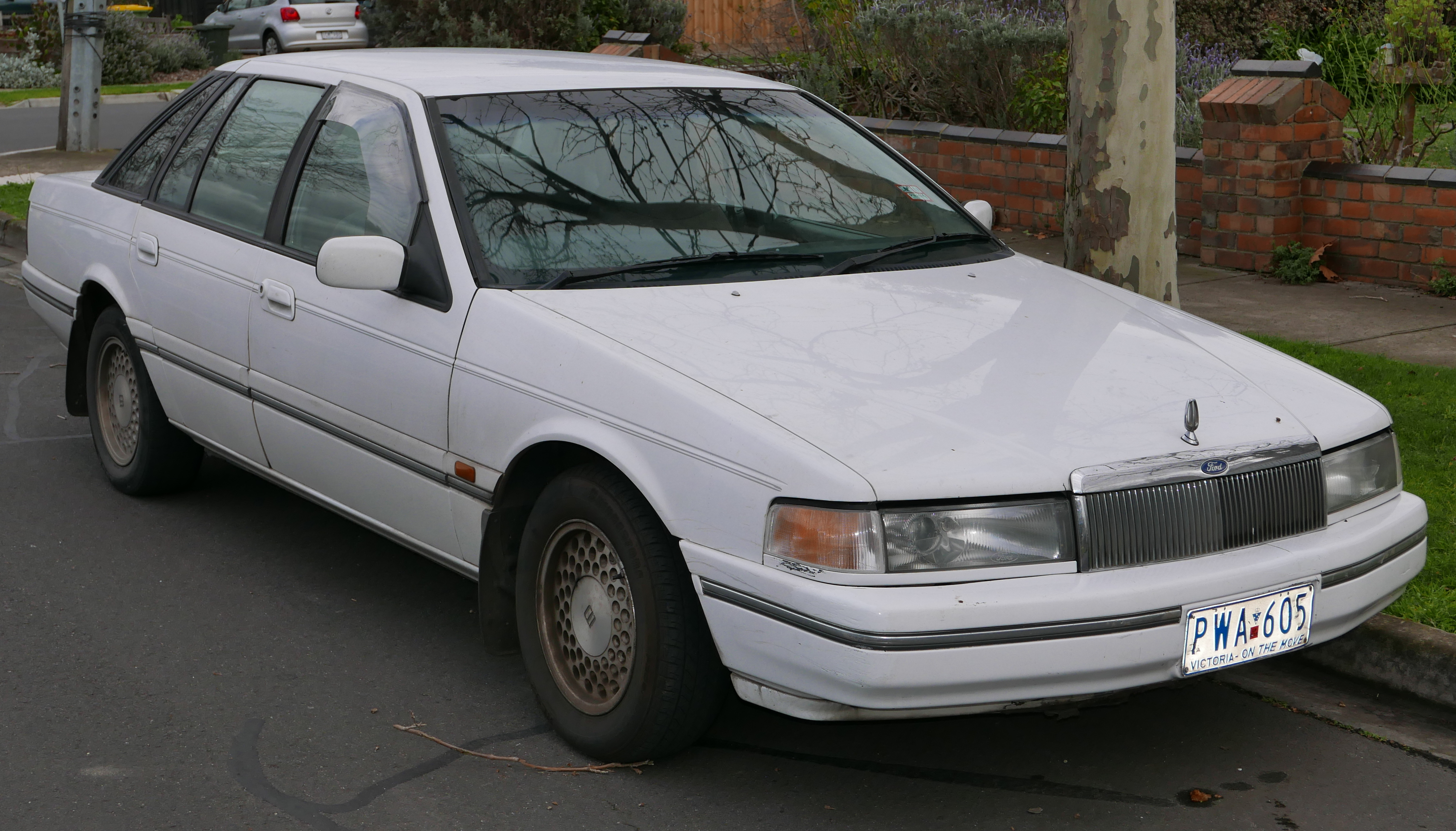 1994 Ford LTD (DC II) sedan. Photographed in Alphington, Victoria, Australia. Vehicle registration enquiry results Jurisdiction Victoria Registration PWA605 Chassis code 6FPAAAJGLWRP33299 Engine code JGLWRP33299 Compliance date 1994-08 Year of manufacture 1994